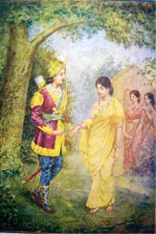 Dushyanta and Shakuntala, Two Characters form Indian Epic Mahabharata - 1940's Vintage Prints